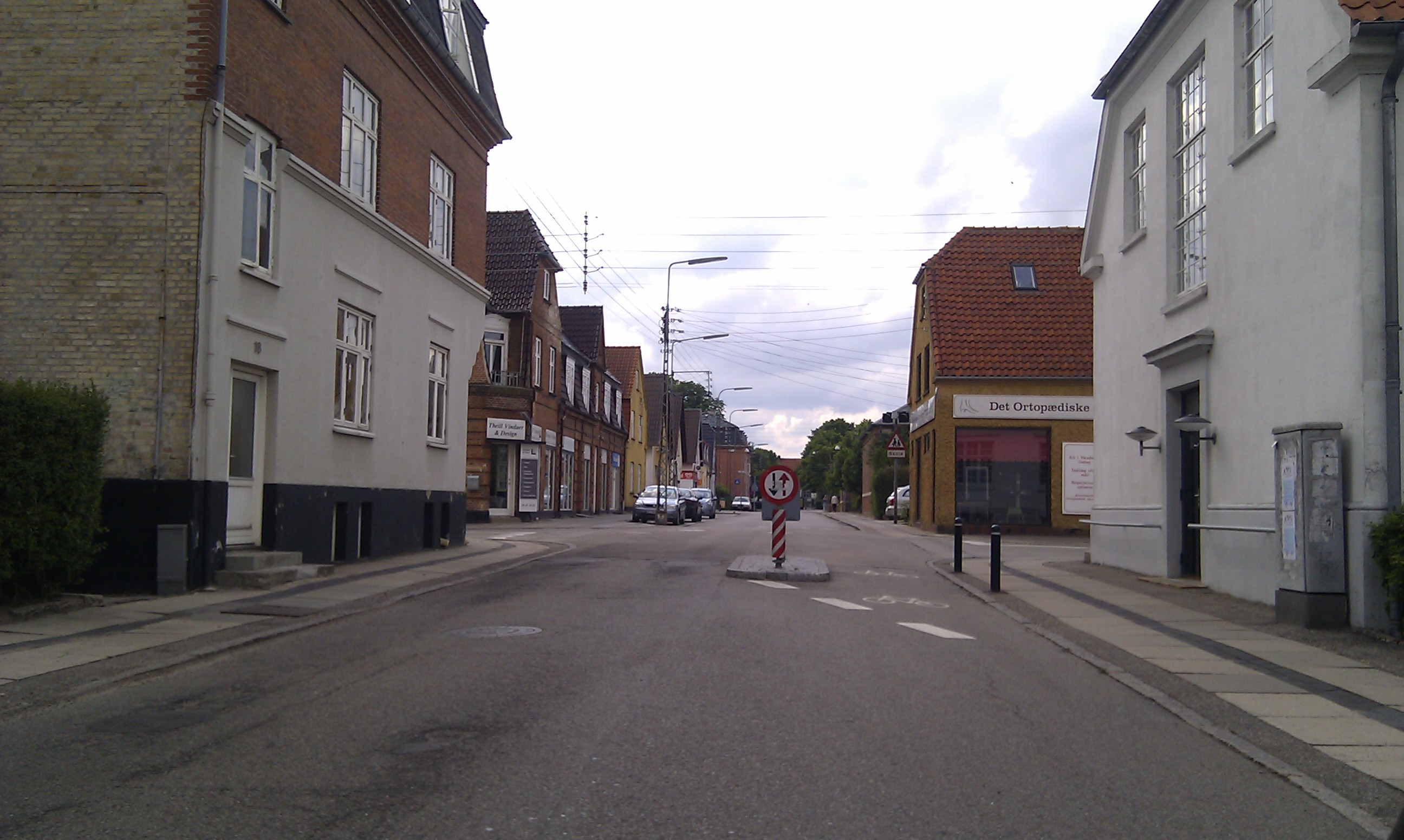 Tidemandsvej street in Holbæk, Denmark